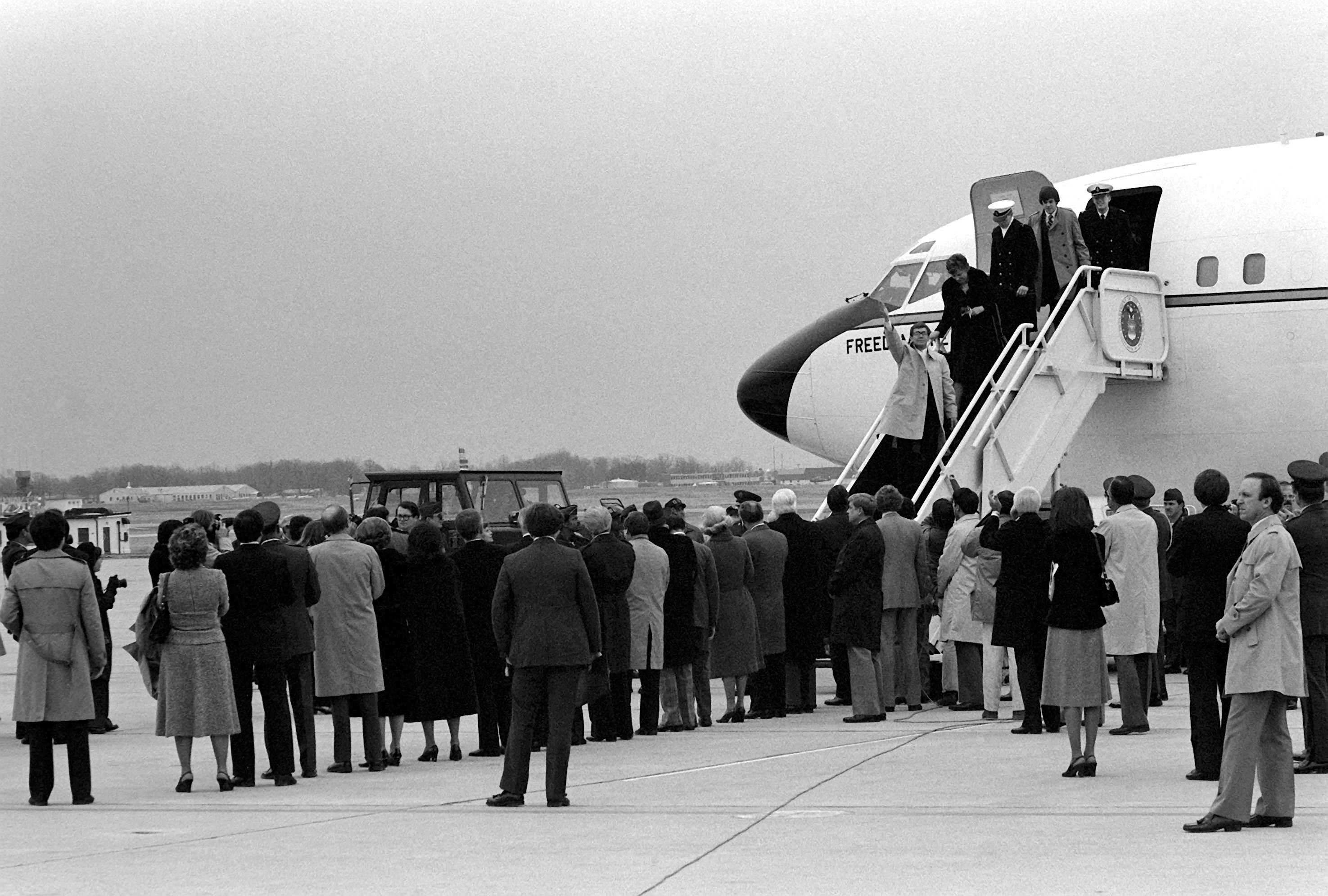 Public Domain. Suggested credit: DOD via pingnews. Additional information from source: Recently freed Americans held hostage by Iran disembark Freedom One, an Air Force VC-137 Stratoliner aircraft, upon their arrival at the base. DoD photo by: PH2 DON KORALEWSKI Date Shot: 27 Jan 1981 National Archive# NN33300514 2005-06-30 Location: ANDREWS AIR FORCE BASE, MARYLAND (MD) UNITED STATES OF AMERICA (USA)